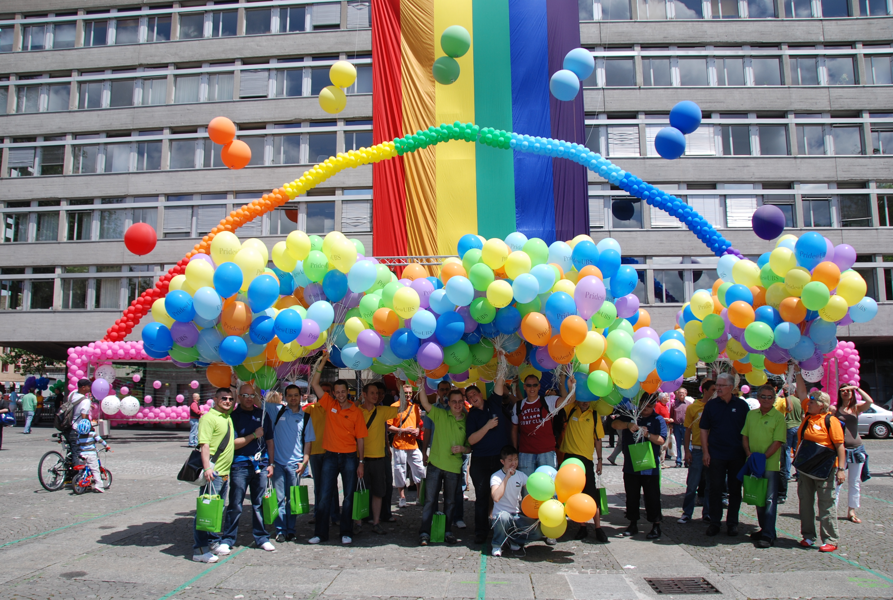 CSD Zurich 2008 in Front of the Community Building with Rainbowflag